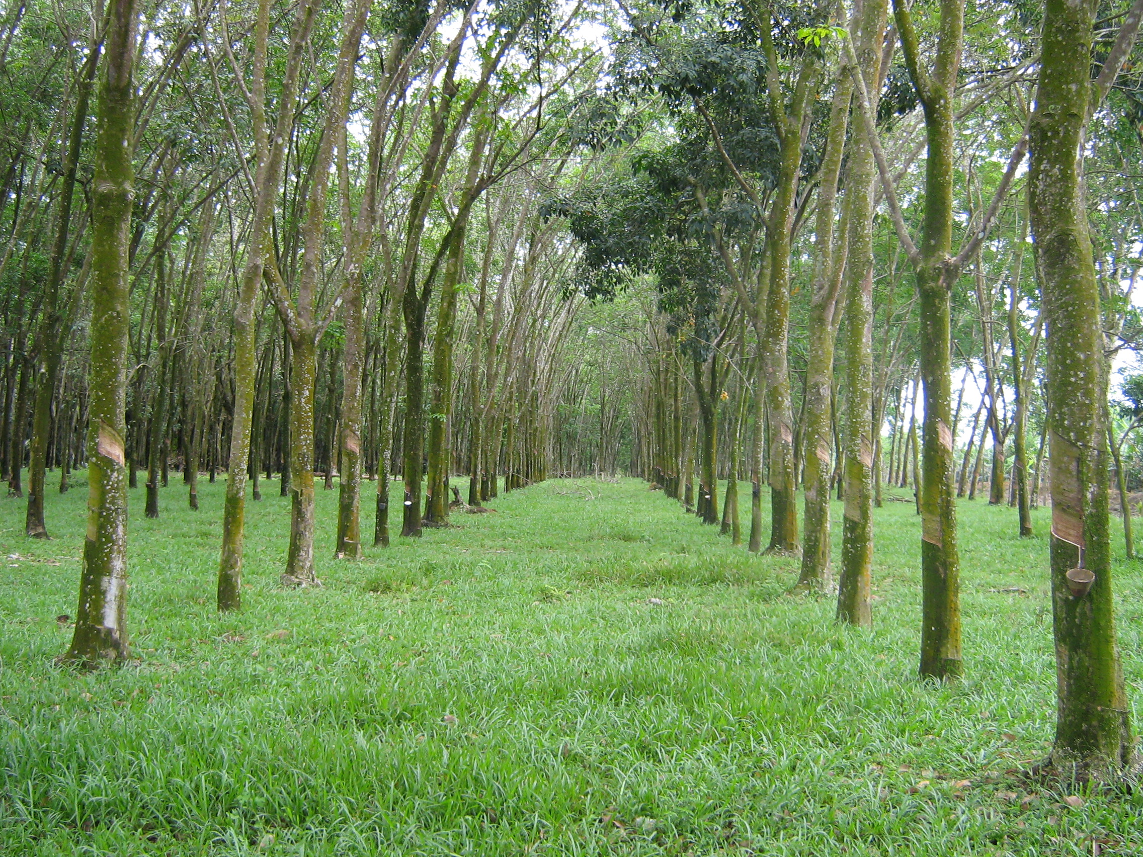 rubbertrees in malaysia